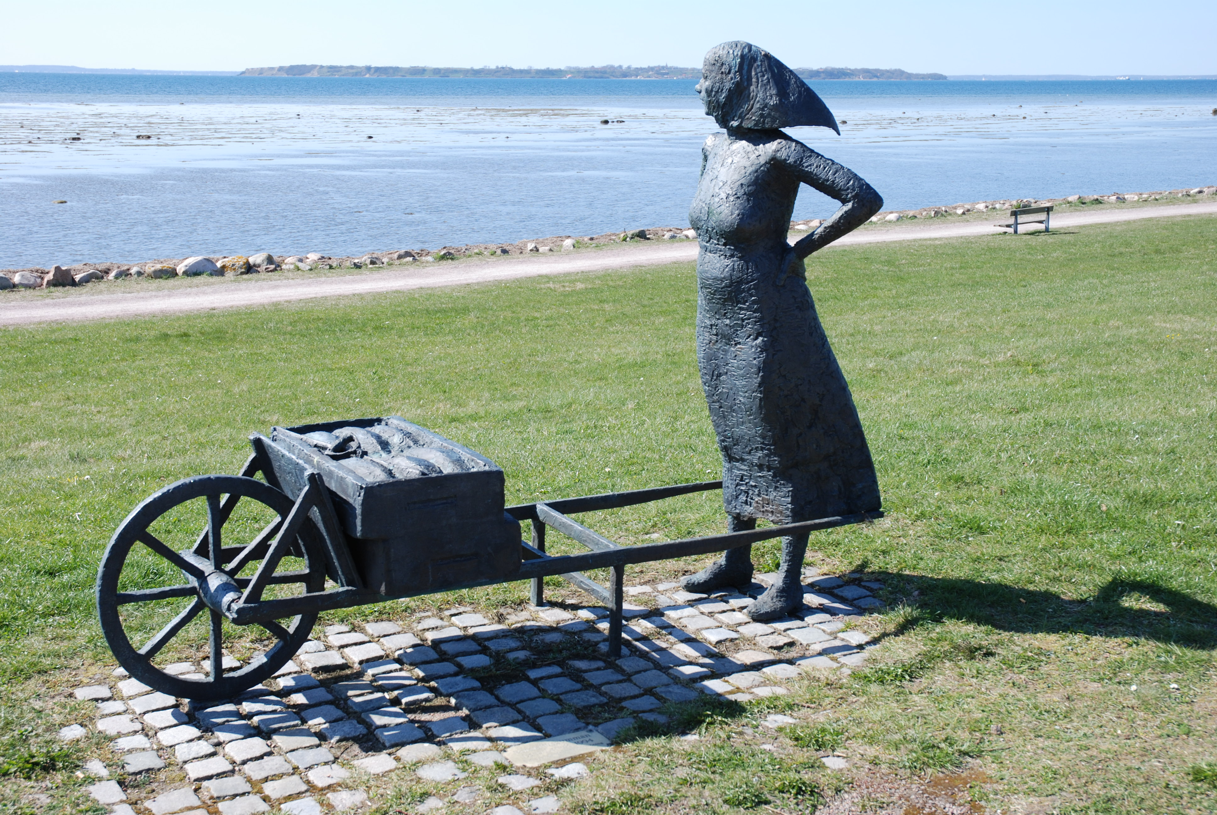 Lena Lervik´s Borstahusgumman (The fishes lady of Borstahusen), Landskrona, Sweden